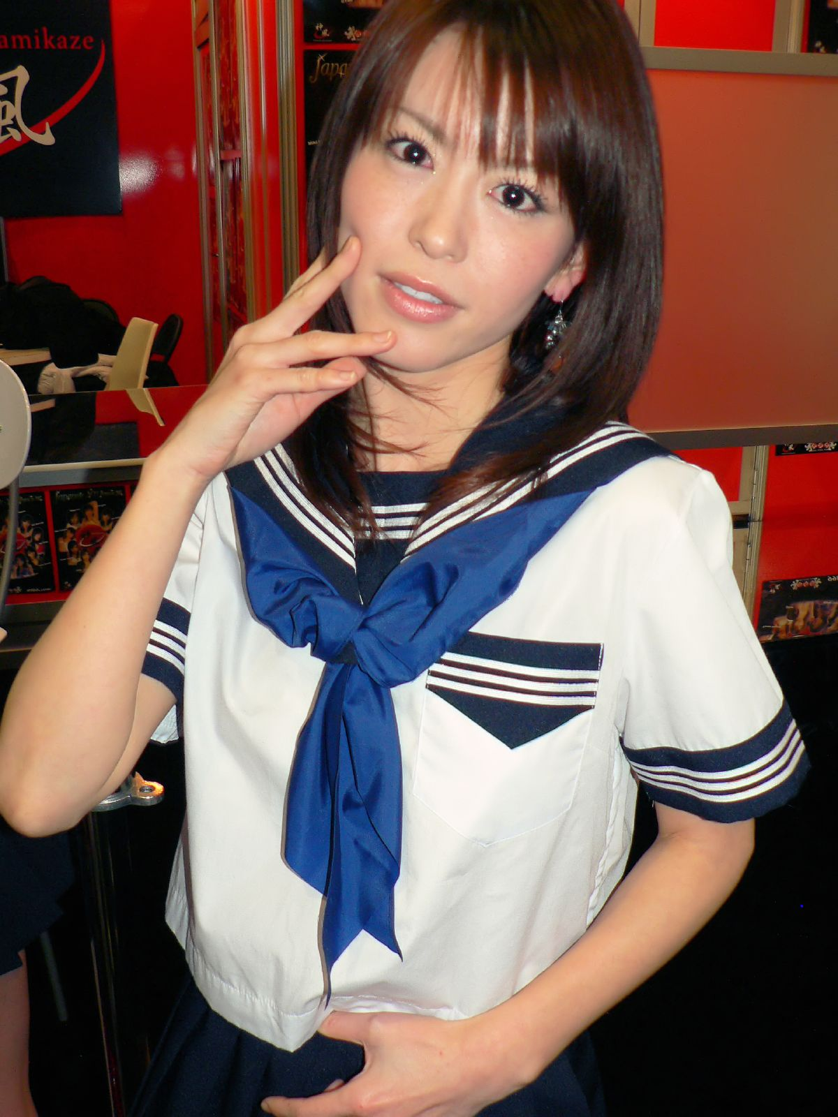 Ai Himeno at the 2007 Las Vegas Adult Entertainment Expo.